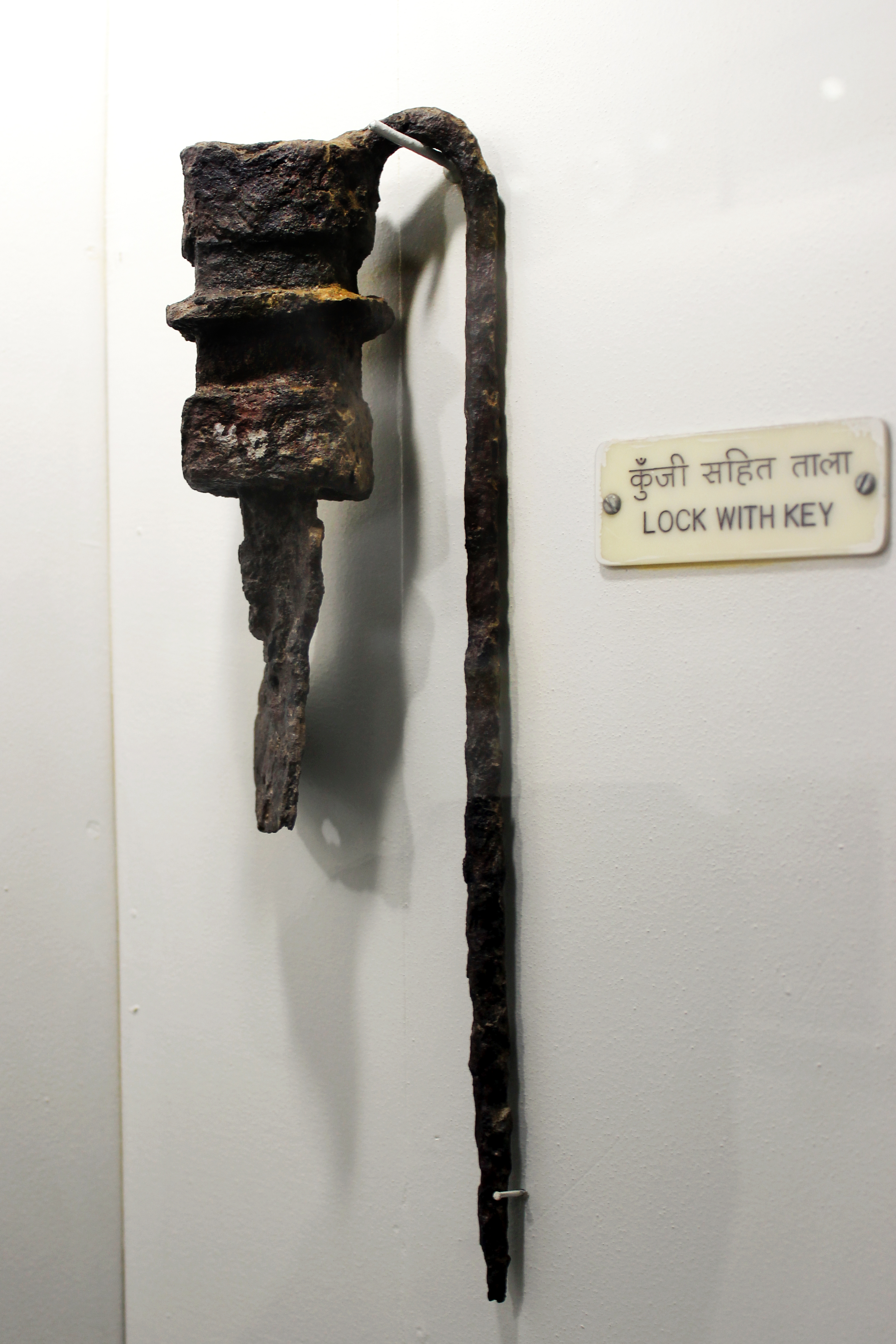 Iron Lock from Sirpur Excavation